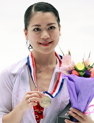 Akiko Suzuki at the 2009 Cup of China.